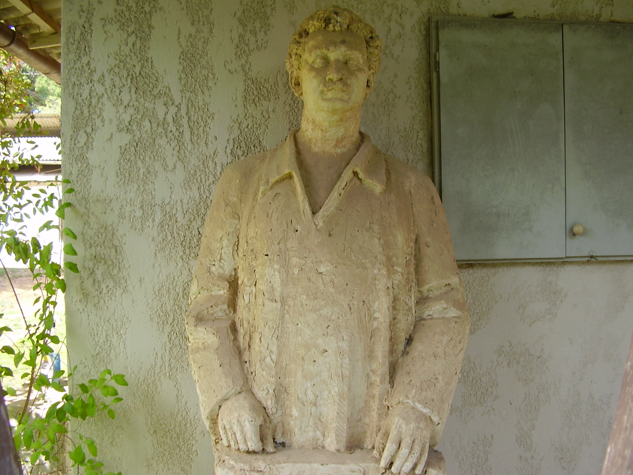 statue of berl katzenekson by jacob luchansky in kibbutz givat brenner פסל של ברל כצנלסון מאת הפסל יעקב לוצ'אנסקי בקיבוץ גבעת ברנר